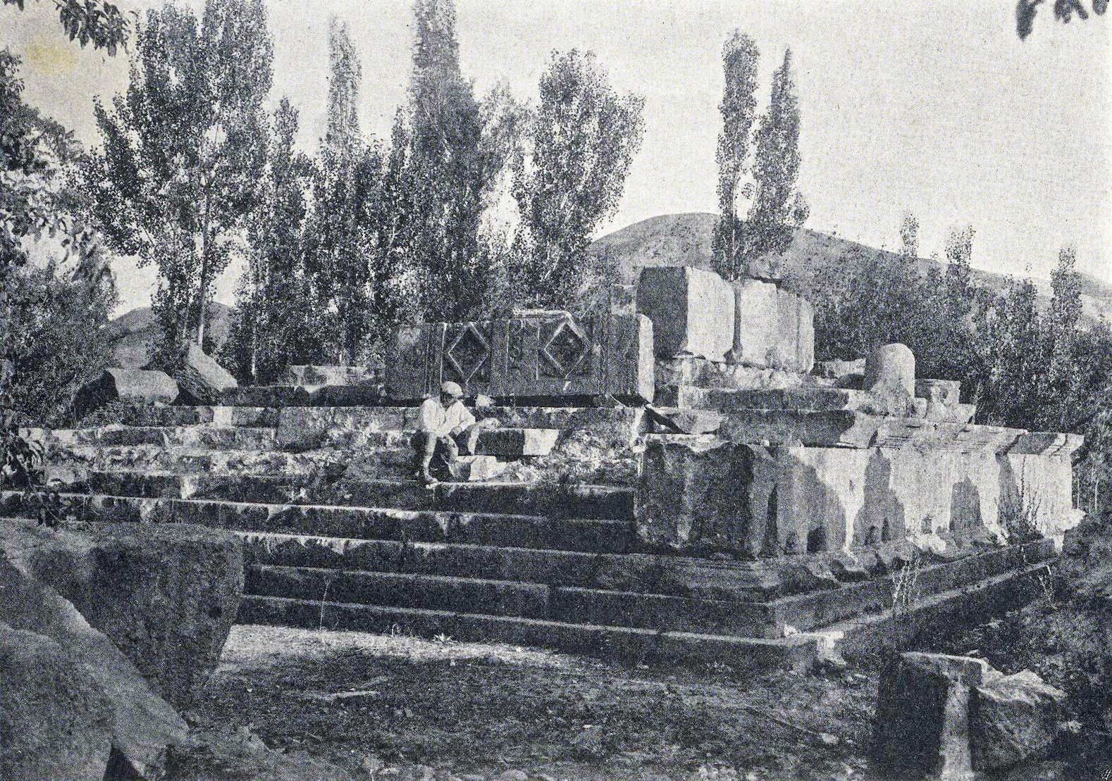 The pagan Garni Temple in Armenia in the early 20th century